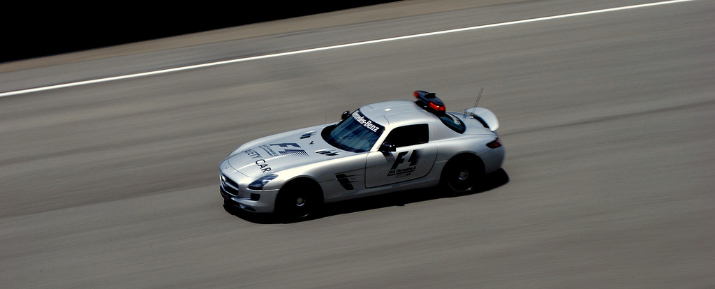 This is Mercedes Benz SLS AMG, at the 2010 F1 race, Kuala Lumpur